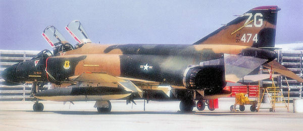 F-4C 63-7474 67th TFS/18th TFW. Photo taken at Korat Royal Thai Air Force Base, Thailand.